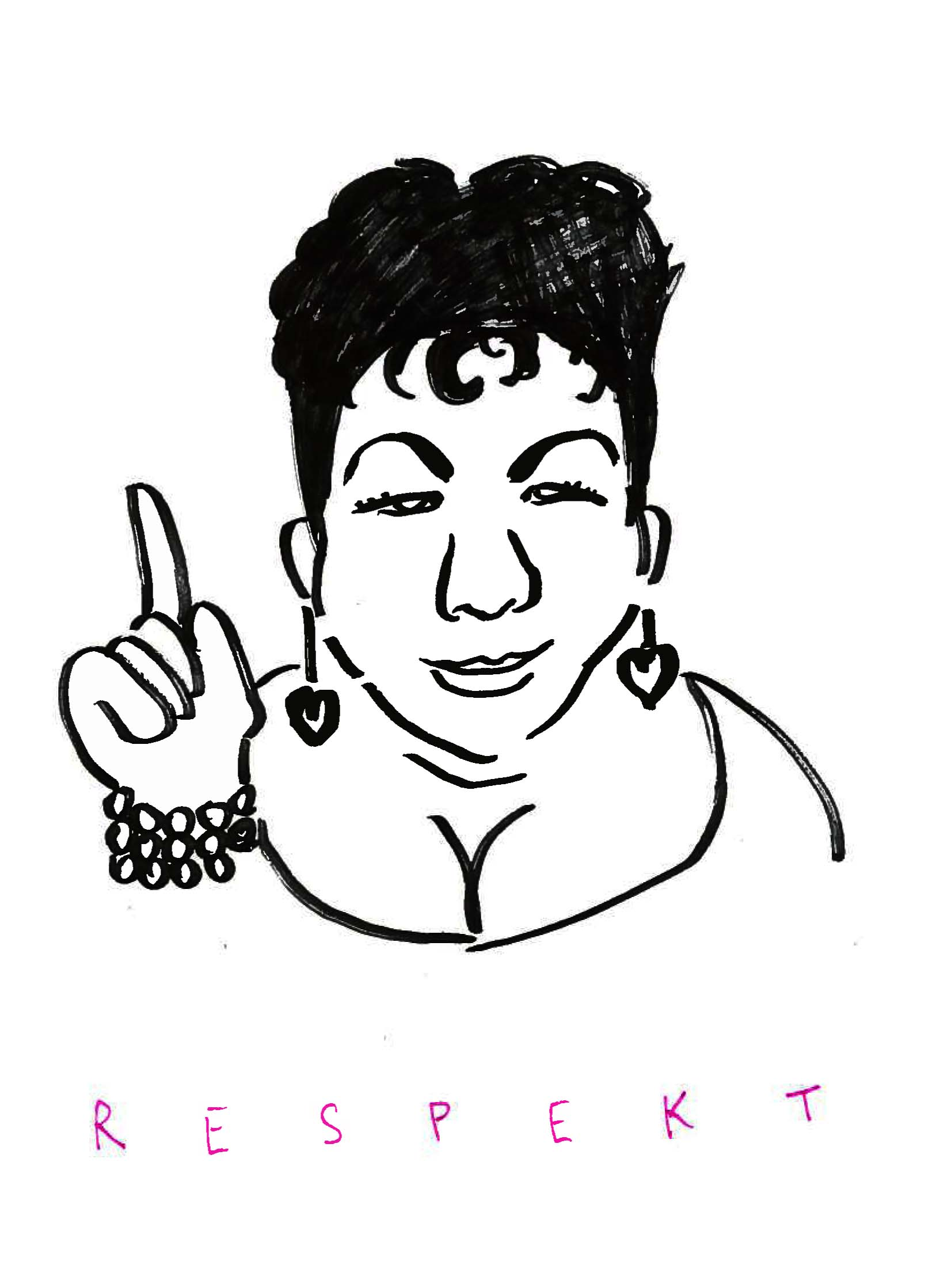 Aretha Franklin sang the song "Respect"